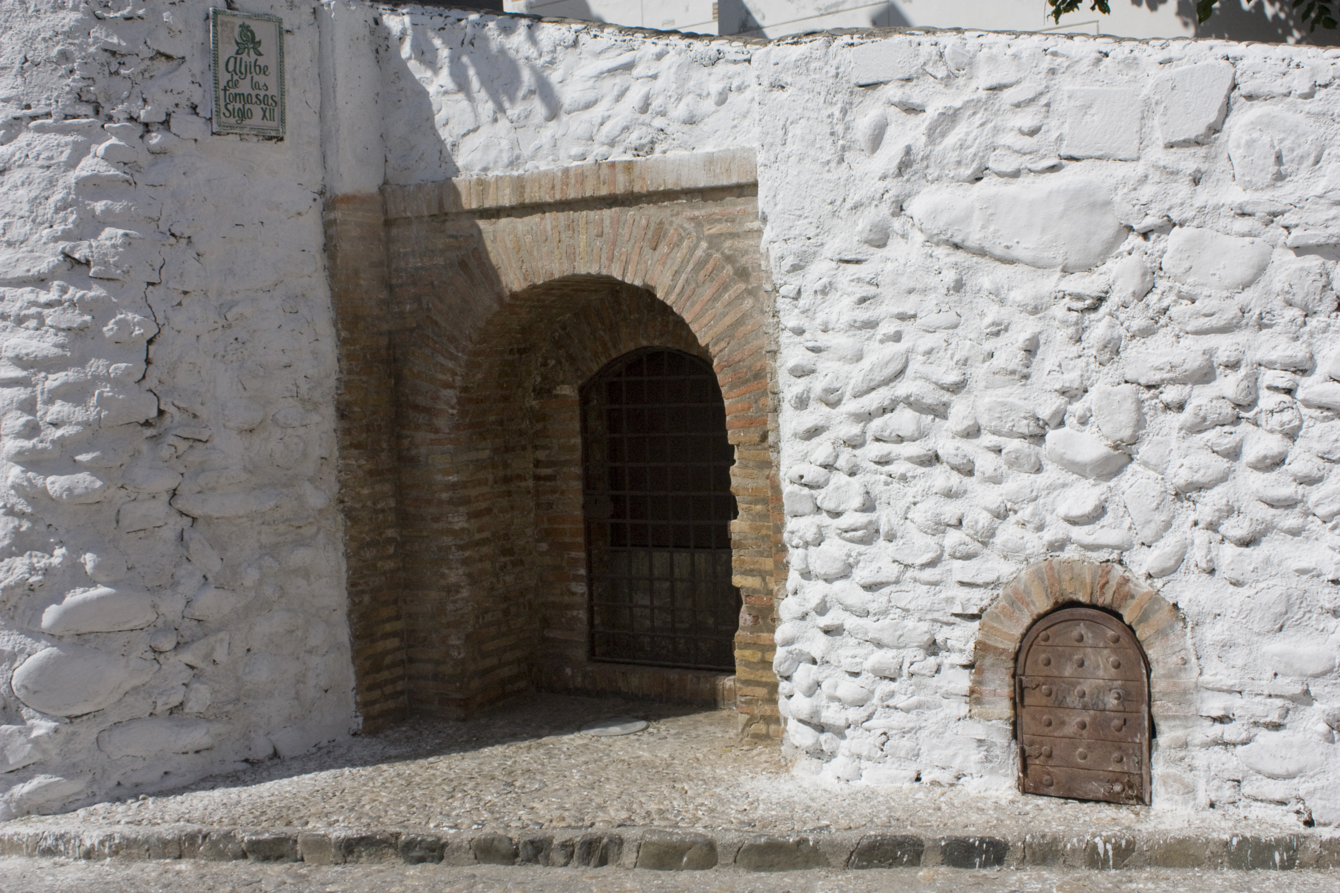 Tank de Tomasas (12th century).